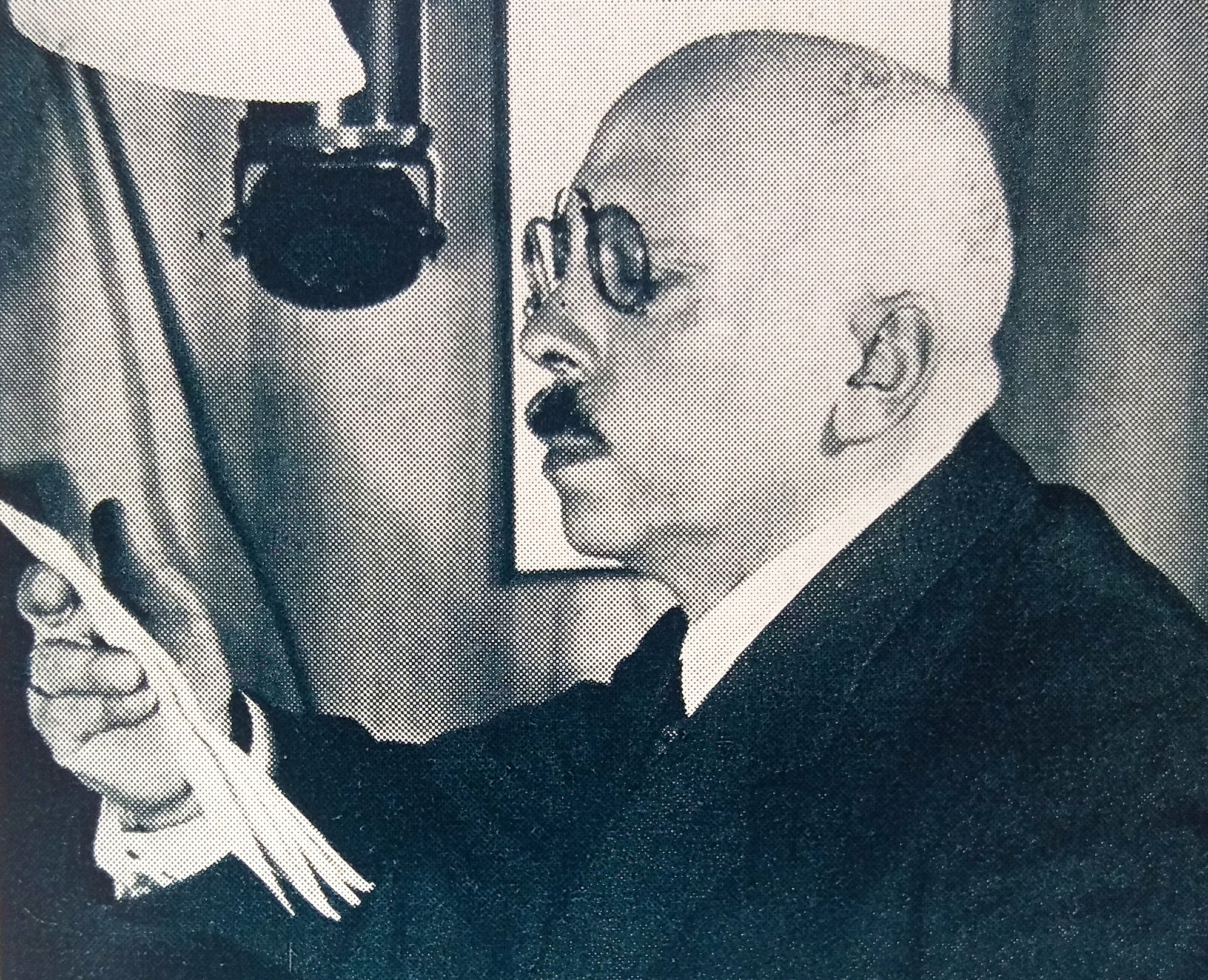 Dr. Jindřich Vodák, Czech literary and theatre critic (photo before 1938)